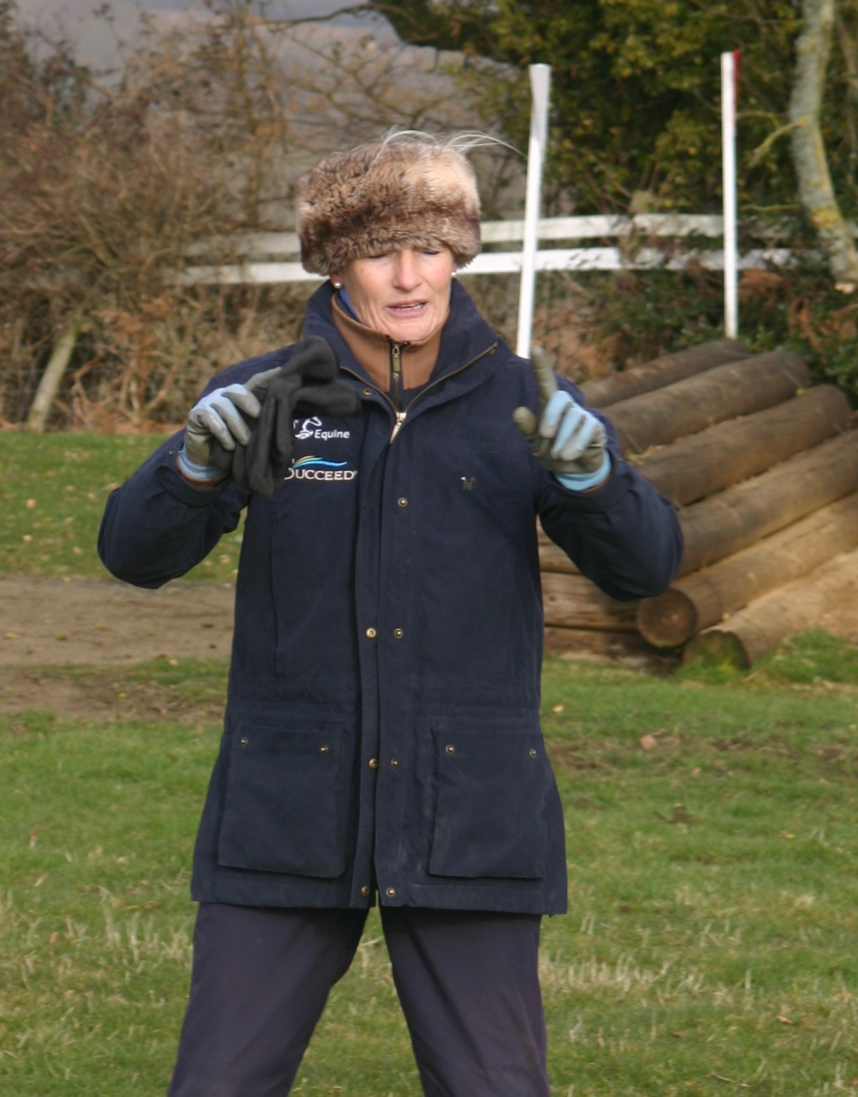 Picture of Lucinda Green at eventing clinic